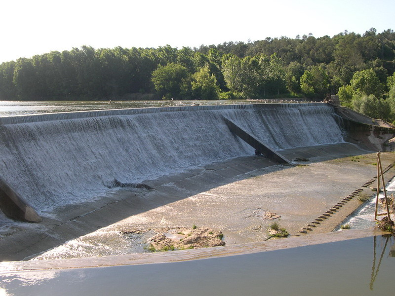 Serinyà dam in Serinyà (Pla de l'Estany) and Maià de Montcal (Garrotxa), Catalonia, on river Fluvià.